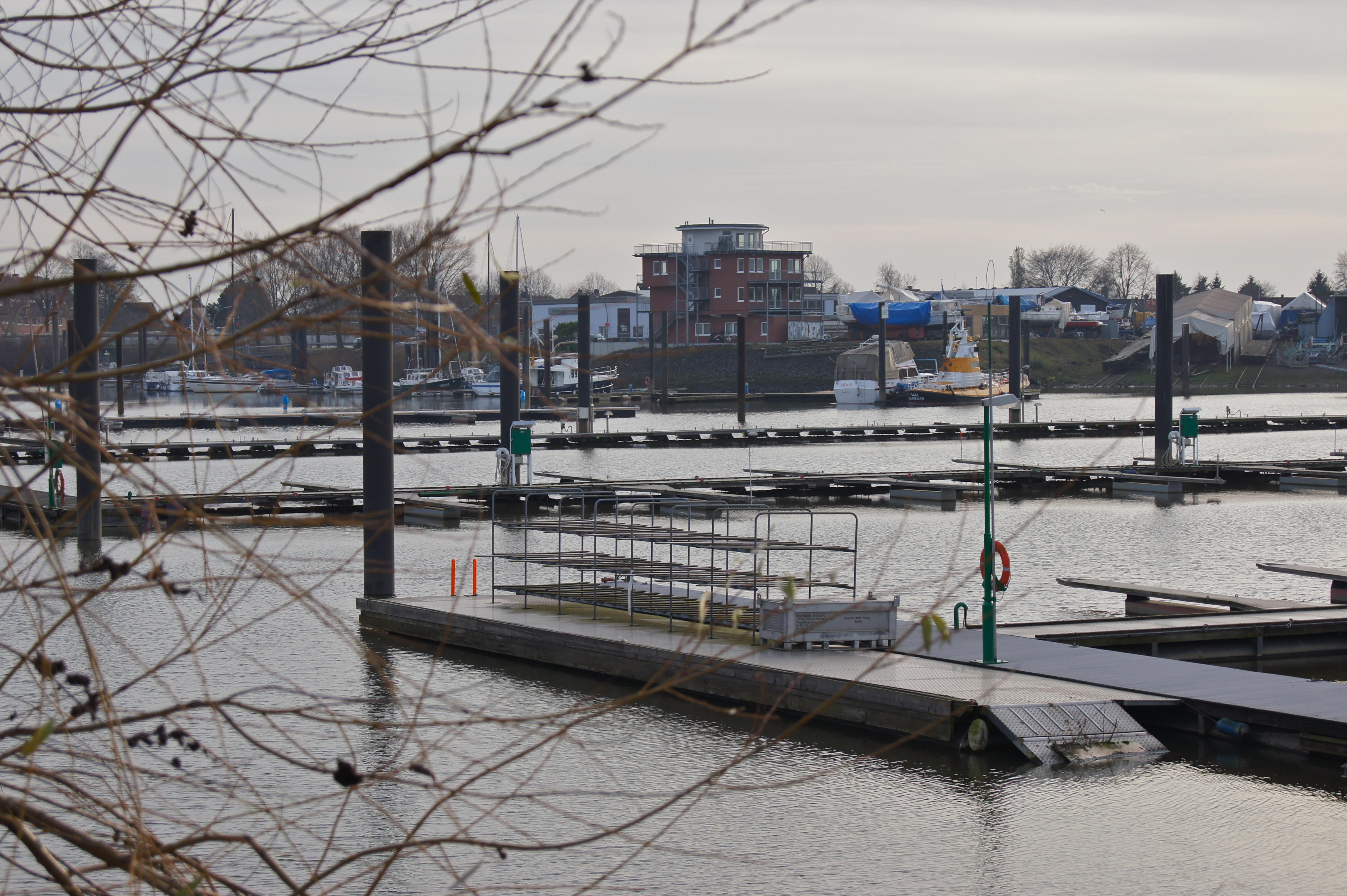 Hamburg (Finkenwerder), Germany: The marina at the Rüschkanal